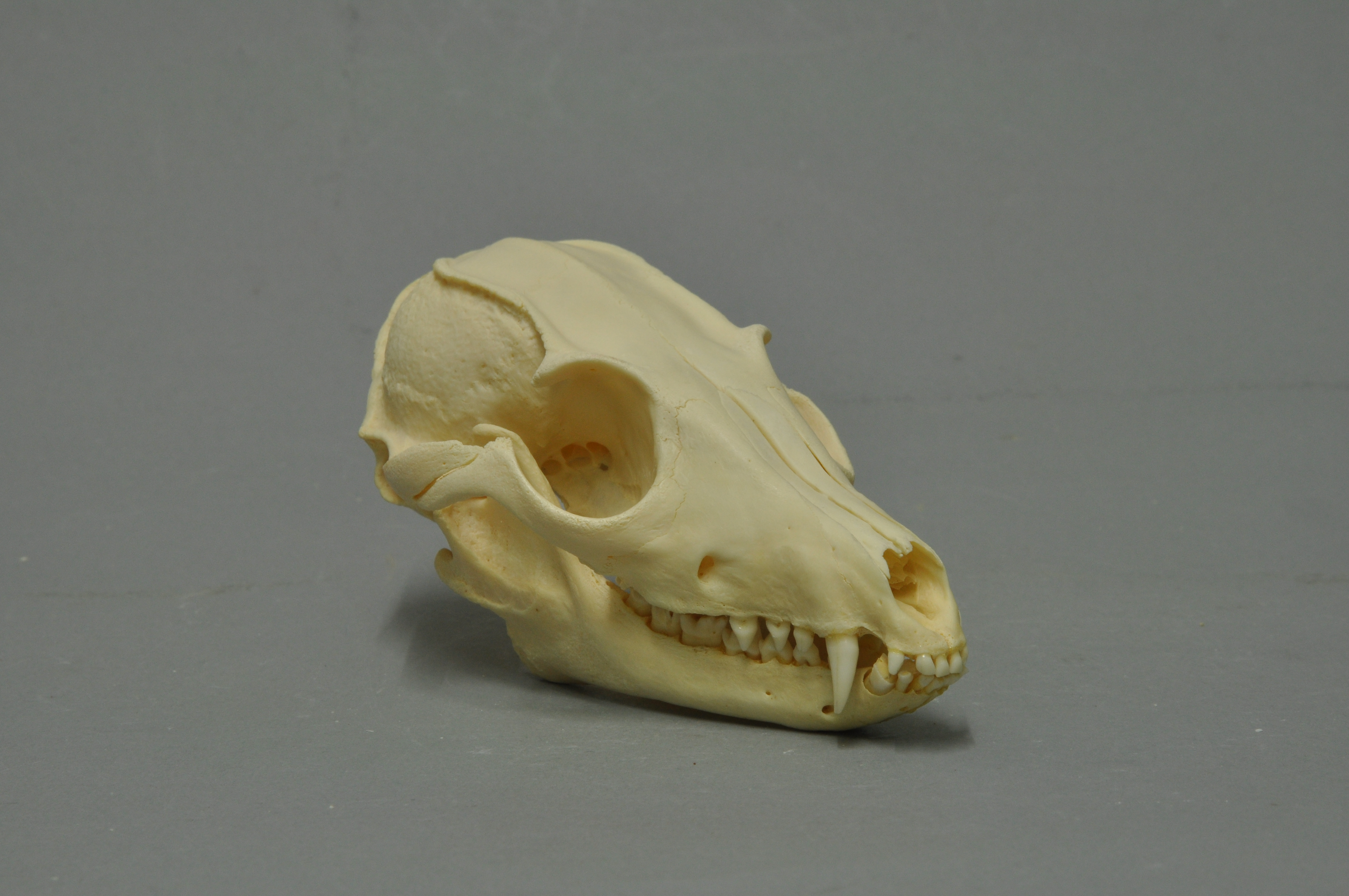 Bat-eared fox Otocyon megalotis, skull, Coll. Museum Wiesbaden